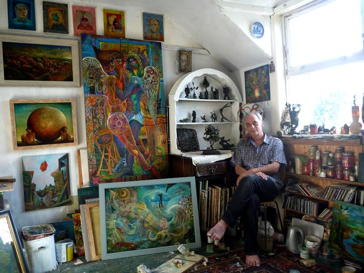 The artist Peter Rodulfo in his studio.